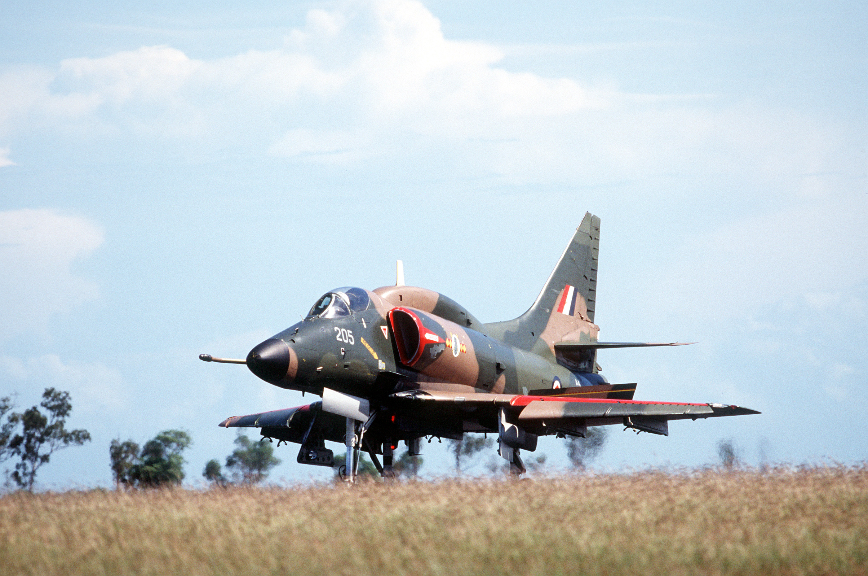 A Royal New Zealand Air Force Douglas A-4K Skyhawk aircraft (s/n NZ6205) from No. 75 Squadron during the joint Australia/New Zealand/US exercise "Pitch Black '84" on 22 April 1984 at RAAF Darwin, Northern Territories (Australia).